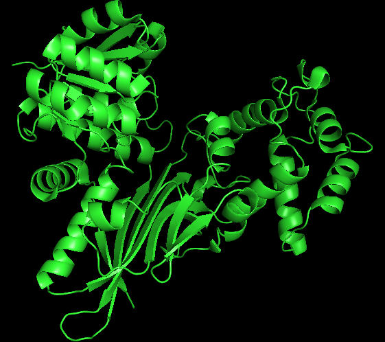 View 2 of structure resolved by Johansson et al. in "Crystal structure of saccharopine reductase from Magnaporthe grisea, an enzyme of the alpha-aminoadipate pathway of lysine biosynthesis."